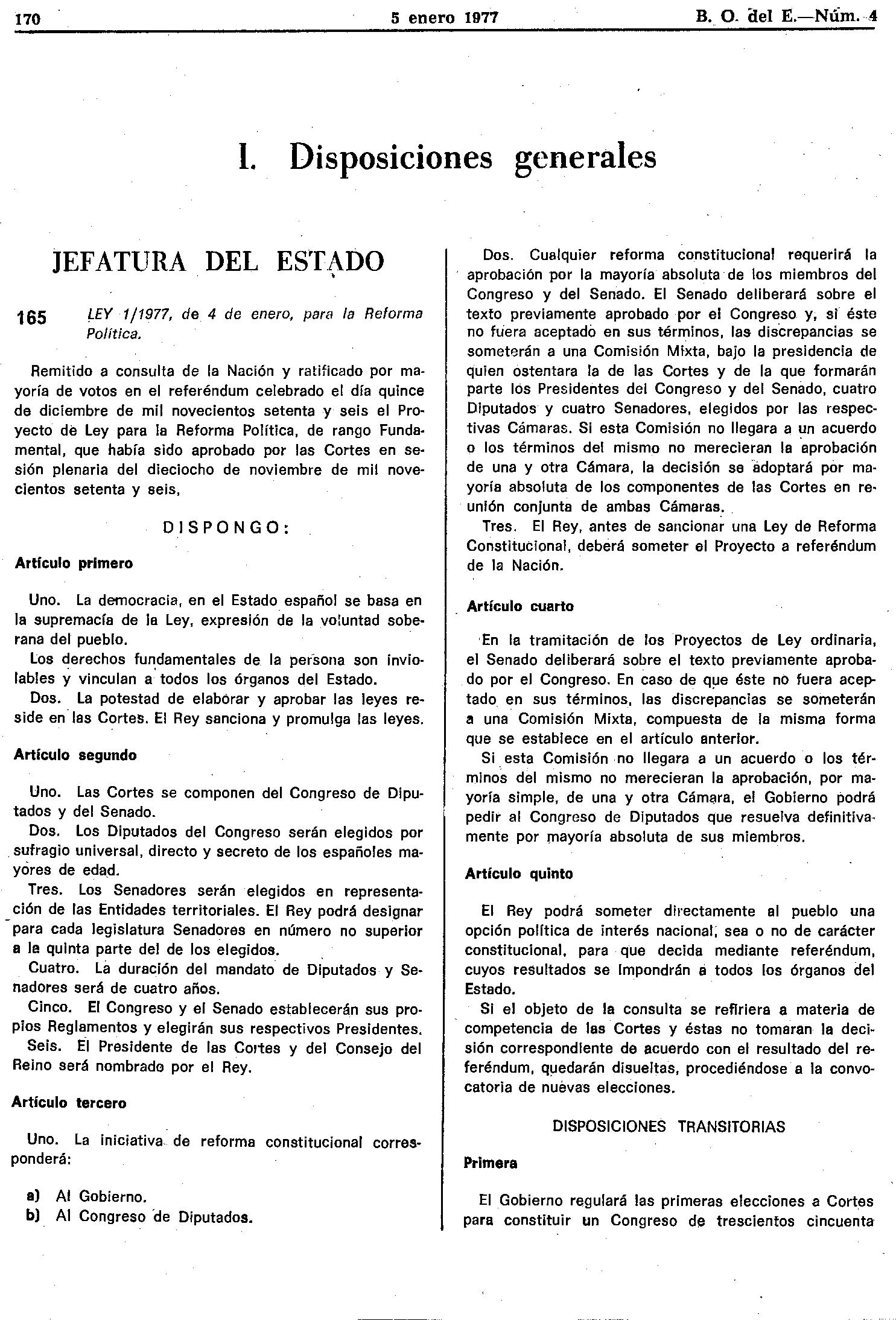 1977 Political Reform Act, as published in the Official Bulletin of the State (Boletín Oficial del Estado)